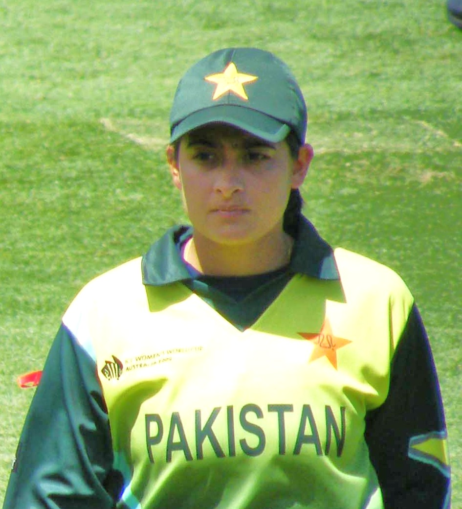 Pakistan Cricket Team - ICC Women's Cricket World Cup, Sydney, March 2009.